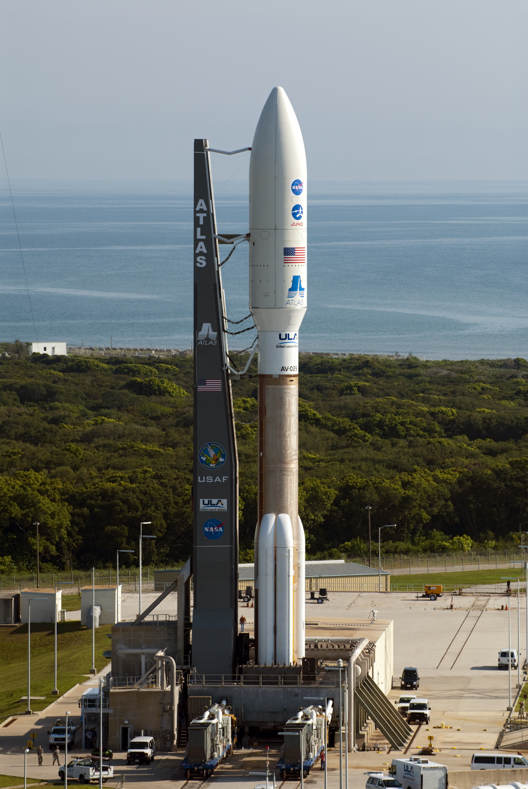 NASA's Juno spacecraft, enclosed in its payload fairing atop a United Launch Alliance Atlas V-551 launch vehicle, stands on its seaside launch pad at Space Launch Complex 41 on Cape Canaveral Air Force Station in Florida. The water of the Atlantic Ocean swirls in the distance.. Launch is planned during a launch window which extends from 11:34 a.m. to 12:43 p.m. EDT on Aug. 5. The solar-powered spacecraft will orbit Jupiter's poles 33 times to find out more about the gas giant's origins, structure, atmosphere and magnetosphere and investigate the existence of a solid planetary core. NASA's Jet Propulsion Laboratory, Pasadena, Calif., manages the Juno mission for the principal investigator, Scott Bolton, of Southwest Research Institute in San Antonio. The Juno mission is part of the New Frontiers Program managed at NASA's Marshall Space Flight Center in Huntsville, Ala. Lockheed Martin Space Systems, Denver, built the spacecraft. Launch management for the mission is the responsibility of NASA's Launch Services Program at the Kennedy Space Center in Florida.